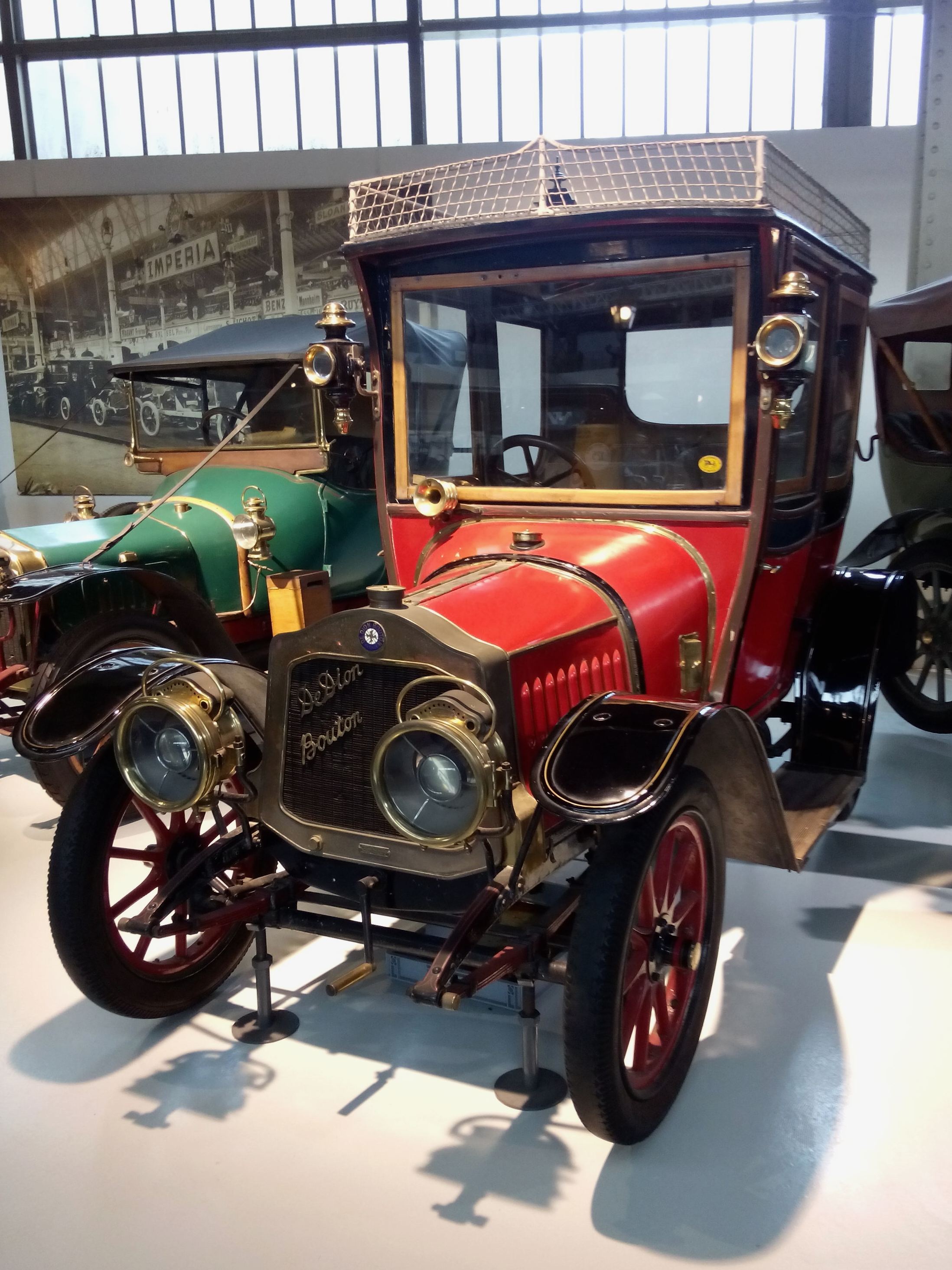 1912 De Dion-Bouton Type DE2 Coupé by Chabrol.